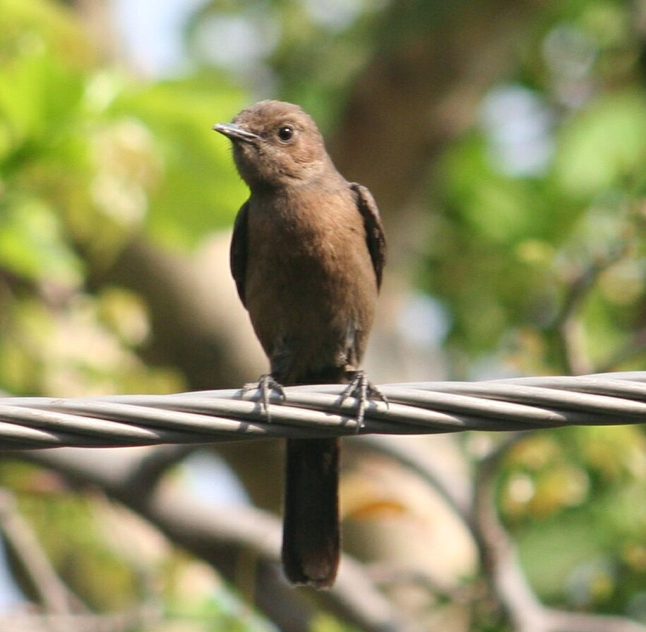 Brown Rock Chat, Delhi